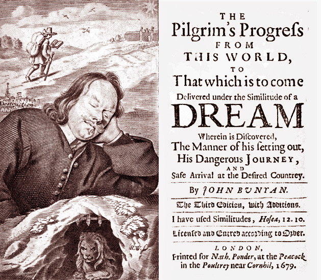 Title pages The Pilgrim's Progress